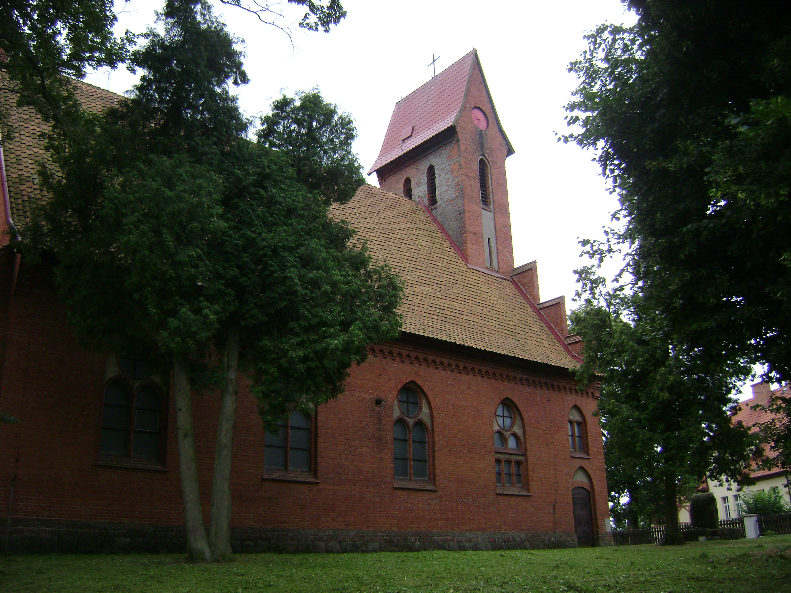 Poland. Szczytno County. Gmina Jedwabno. Nowy Dwór